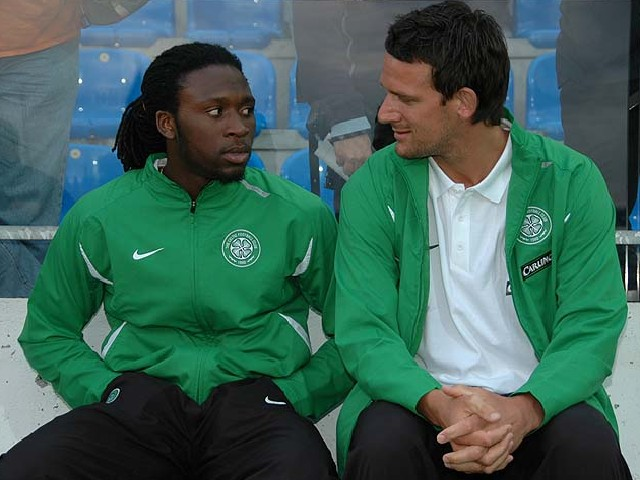 Evander Sno and Hesselink sit out the first half versus Basle, pre-season 2007.